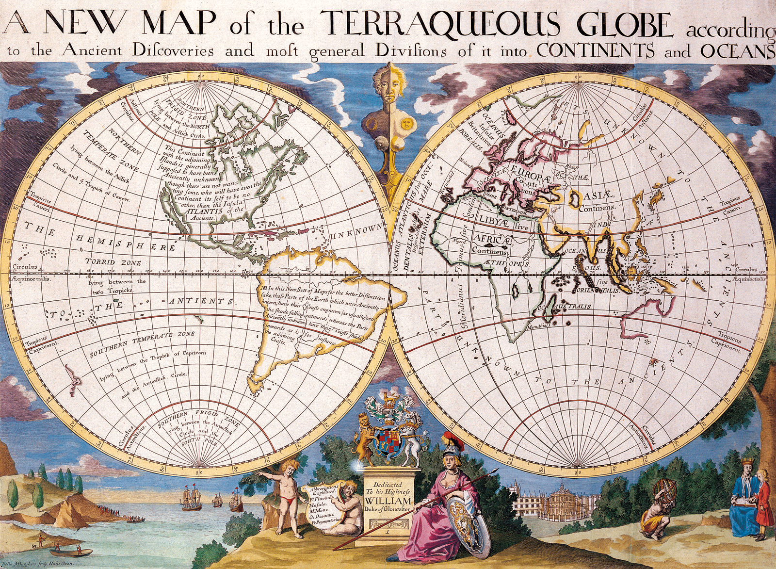 A NEW MAP of the TERRAQUEOUS GLOBE according to the Ancient Diſcoveries and moſt general Diviſions of it into CONTINENTS and OCEANS. Published in Oxford. Dedicated to Wiliam, Duke of Glouchester. Similar to National Library of Australia, NK 4620. Hand Colored.